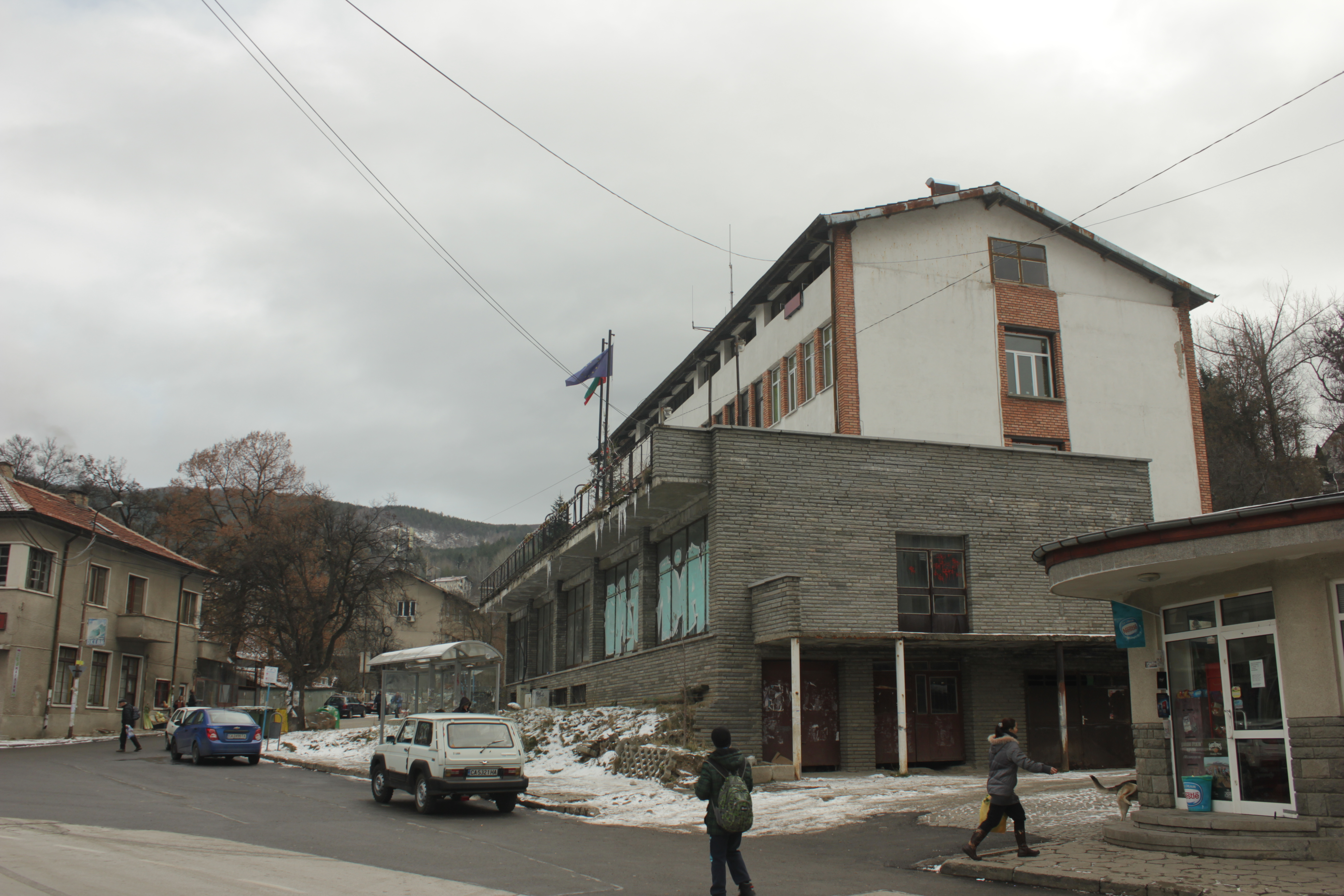 Town hall in Vladaya